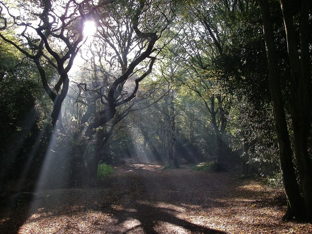 Forest path, November morning